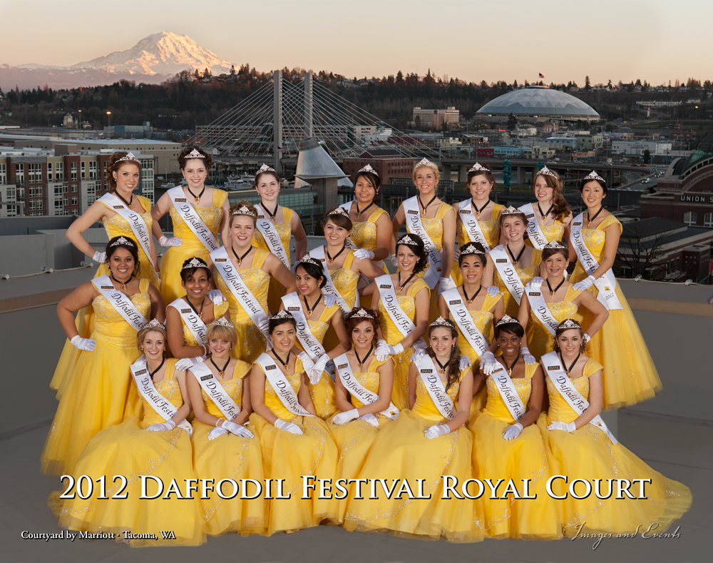 The Official Portrait of the 2012 Royalty.